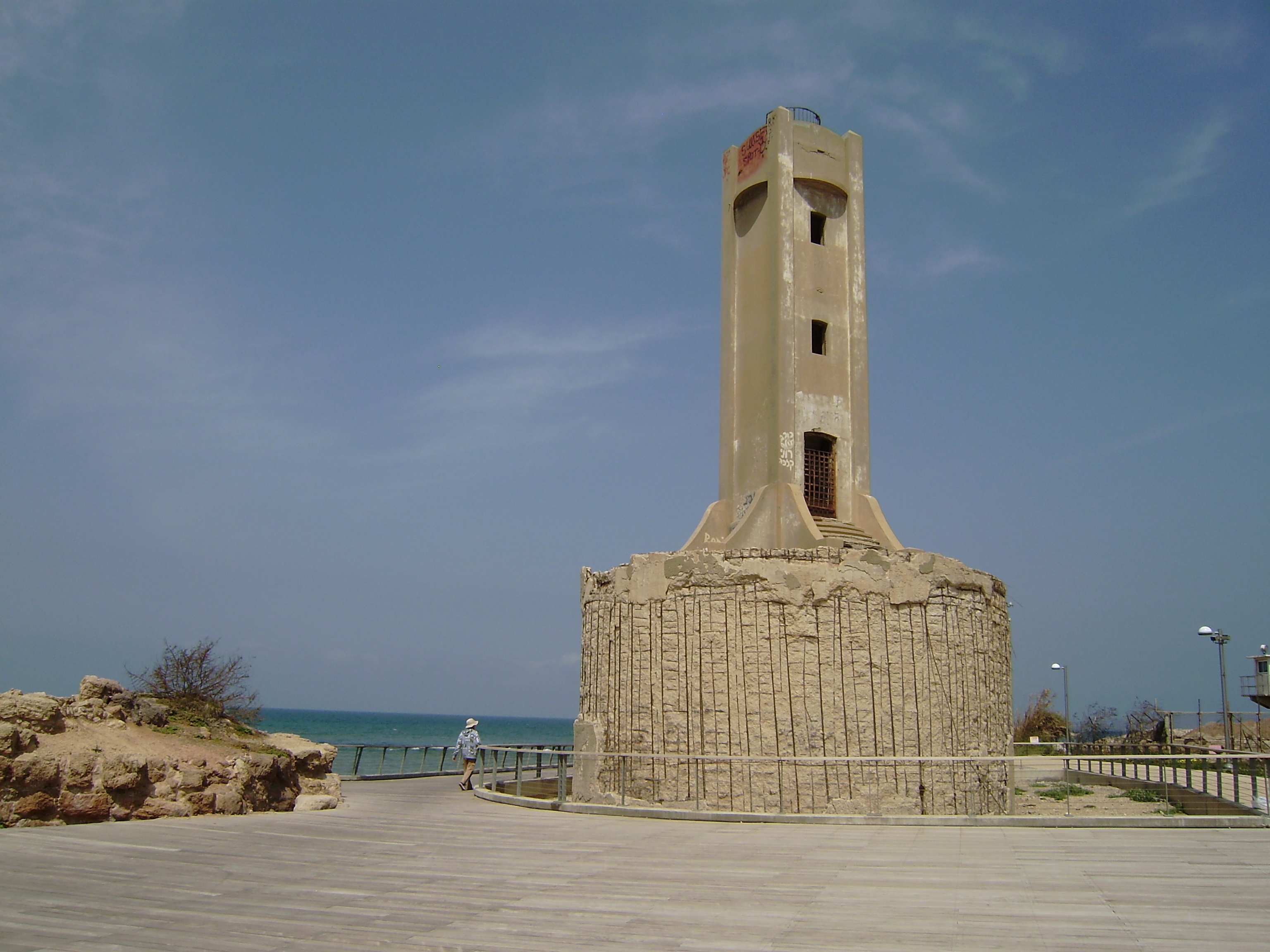 Tel-Kudadi, ancient lighthouse in Tel-Aviv, Israel.